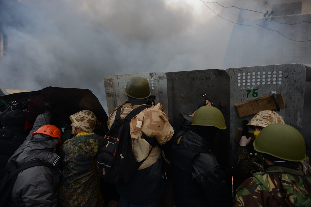 Protesters holding protective positions. Clashes in Ukraine, Kyiv. Events of February 19, 2014